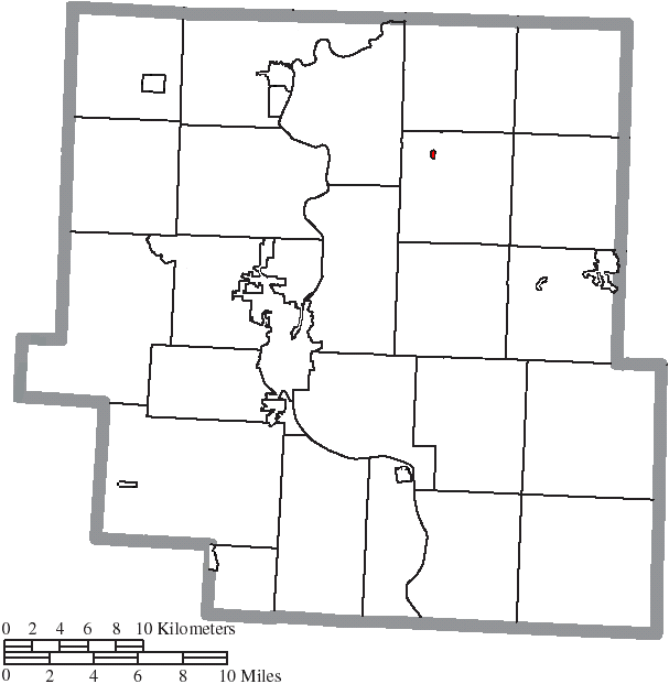 Map of the municipal and township boundaries of Muskingum County, Ohio, United States, as of the 2000 census, with the location of the village of Adamsville highlighted. Township borders are shown only in unincorporated areas in order to differentiate incorporated and unincorporated areas more clearly.